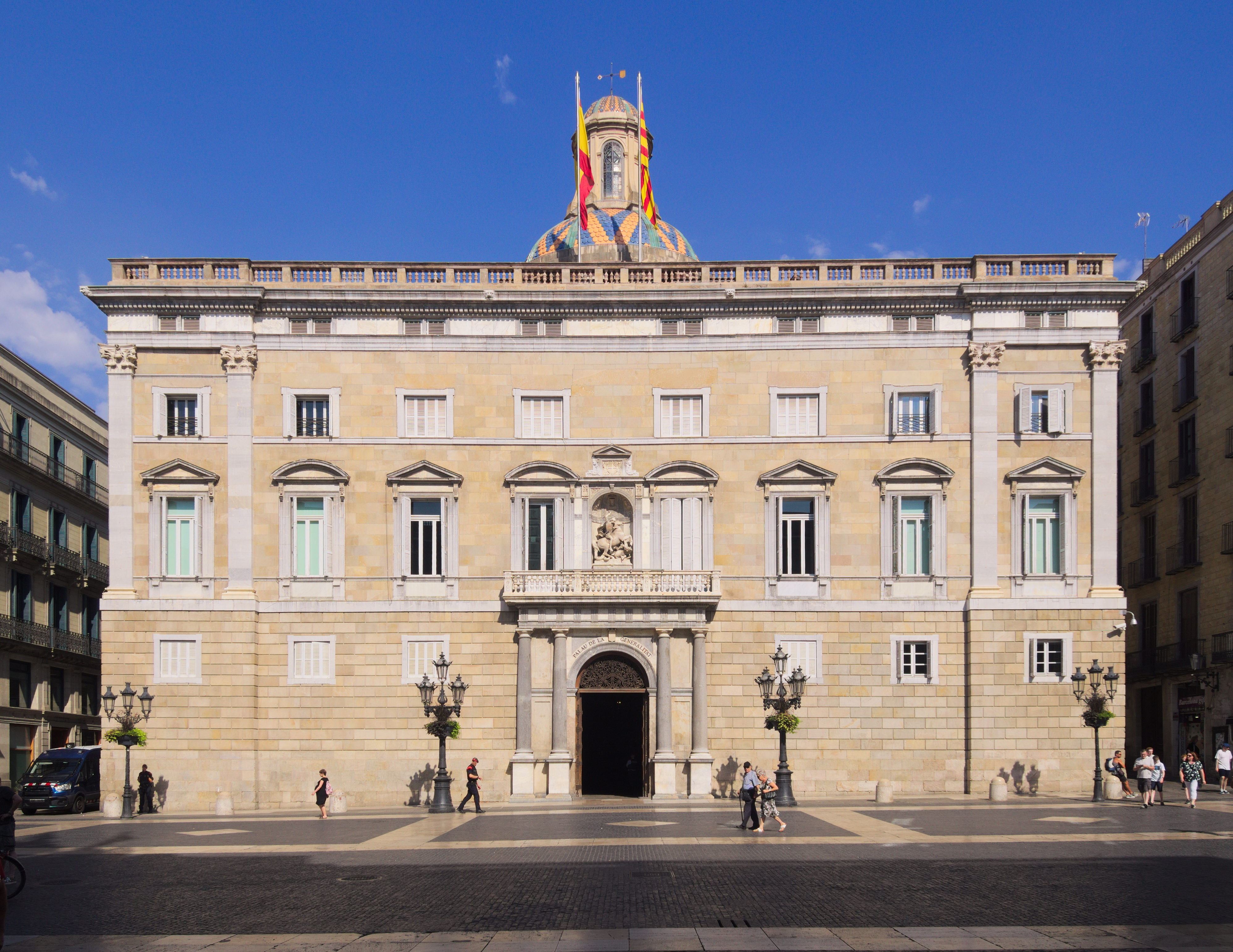 The main facade of the Palau de la Generalitat de Catalunya.